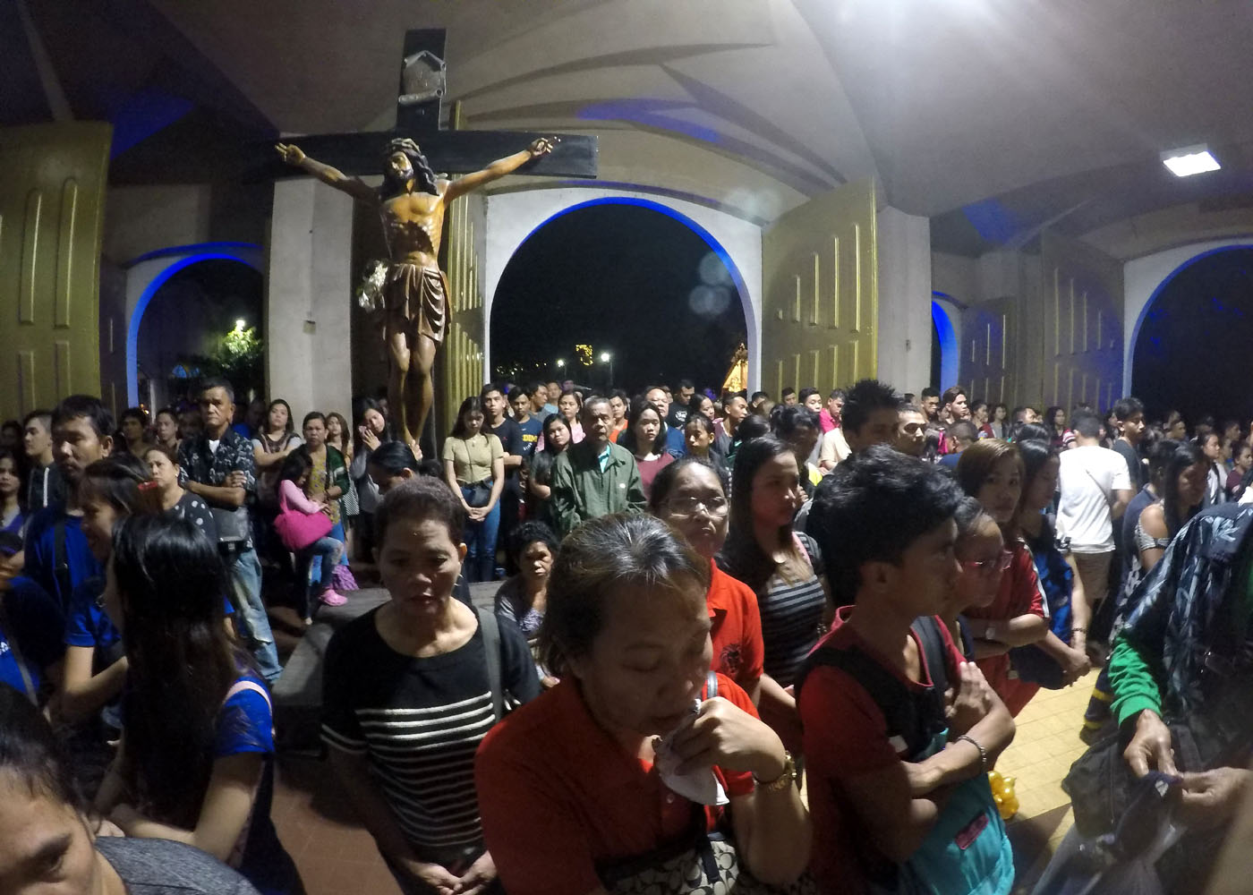 Catholic faithfuls troop to the Baclaran Church in Parañaque dawn Sunday (Dec. 16, 2018) for Simbang Gabi, a Filipino Christmas tradition. Simbang Gabi is a series of nine dawn masses held as early as 4 a.m. starting Dec. 16 and ends on the midnight of Dec. 24.